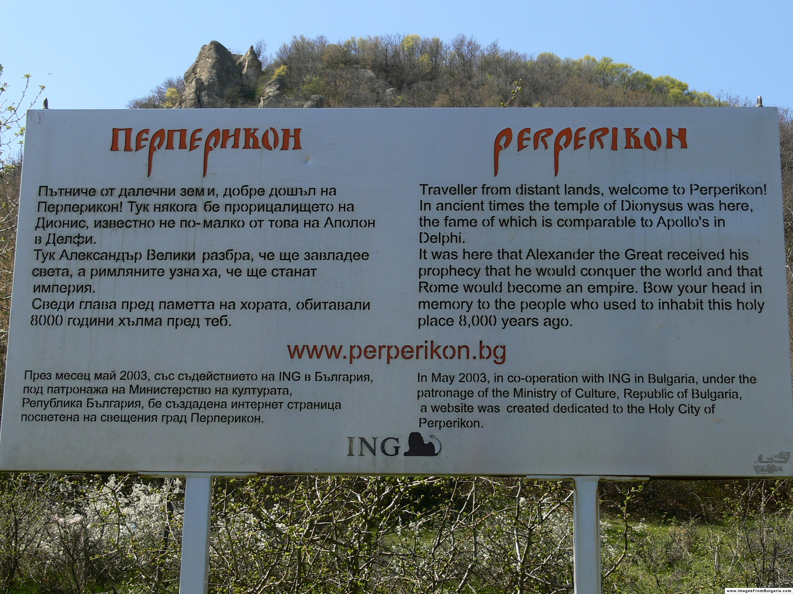 Perperikon - ancient Thracian town in the Rhodope Mountains